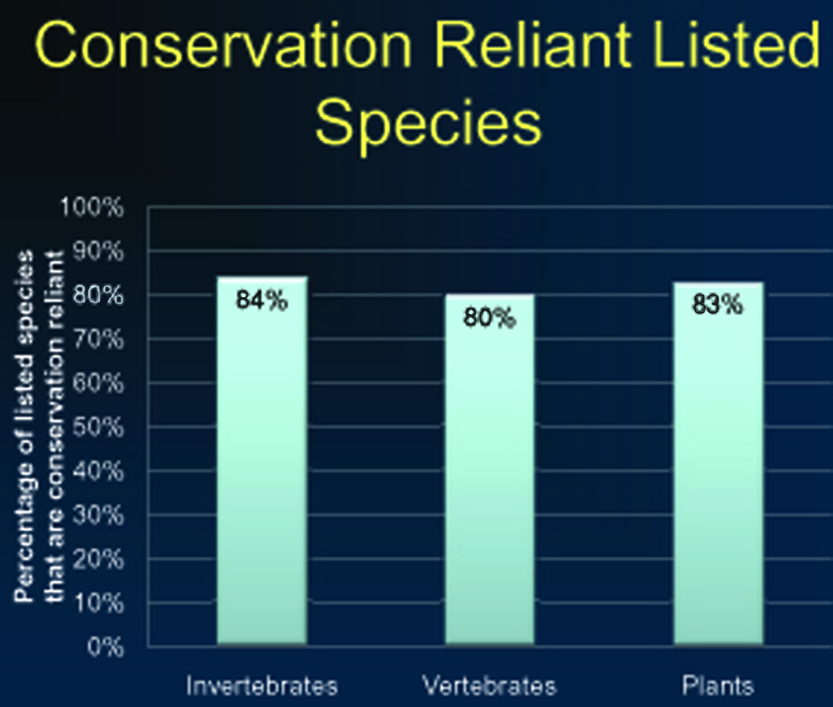 Graph of Conservation reliant species